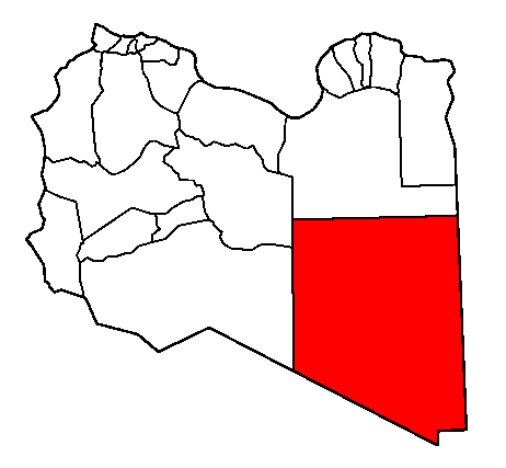 map of Libya with Shabiat Al Kufrah (District), in the southern Cyrenaica region, highlighted